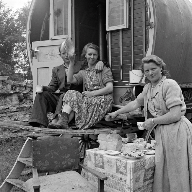 Members of either the Sheridan or O'Brien families enjoying a meal at their camp site at Loughrea, Co. Galway. Date: May 1954 NLI Ref.: WIL k4[54]